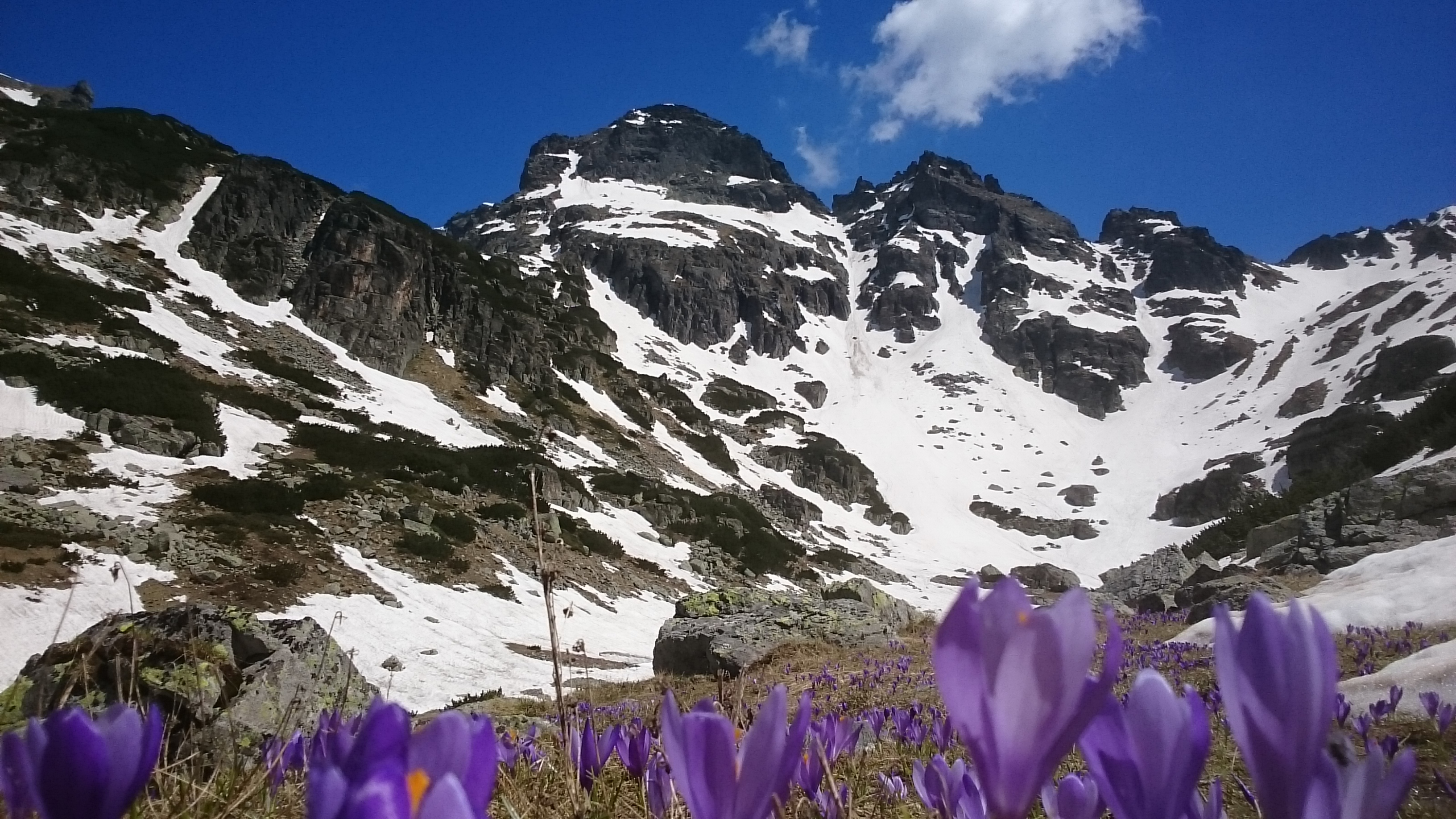 Malyovitsa, Rila National Park, Bulgaria